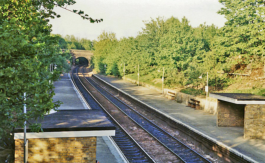 Crouch Hill station. View NE, towards South Tottenham and Barking: ex-Midland and GE (Tottenham & Hampstead Joint line), part of the important east-west freight link across North London with a local passenger service Kentish Town - Barking, later Gospel Oak - Barking.